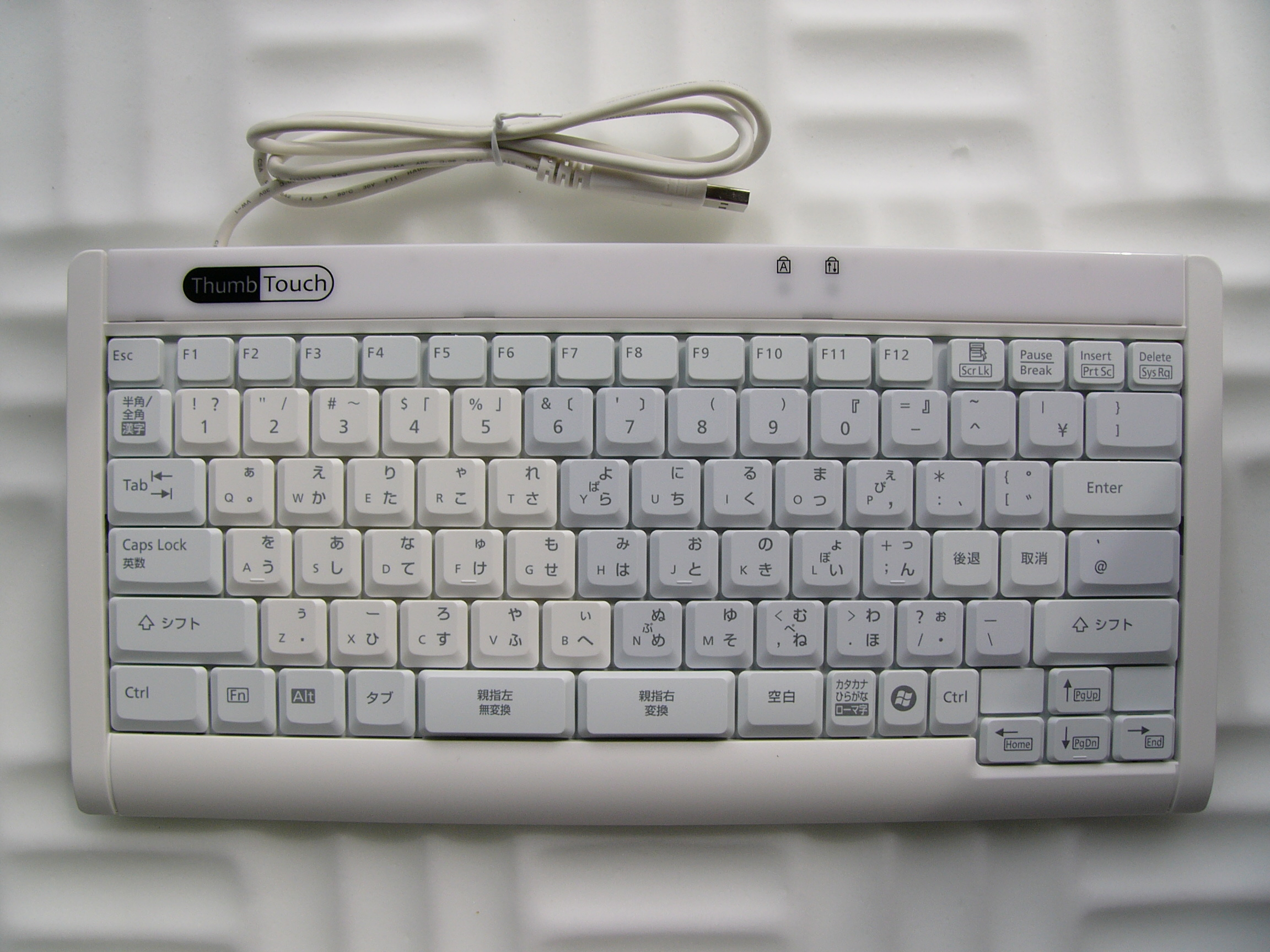 Japanese Thumb-shift keyboard